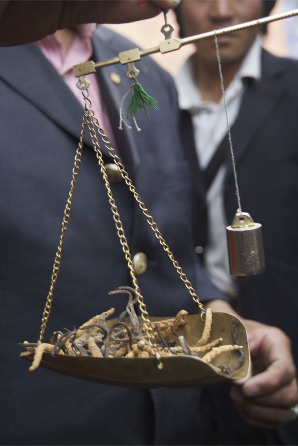 Weighing the precious Caterpillar fungus in Gyegu-Yushu, Southern Qinghai, China, July 2009.